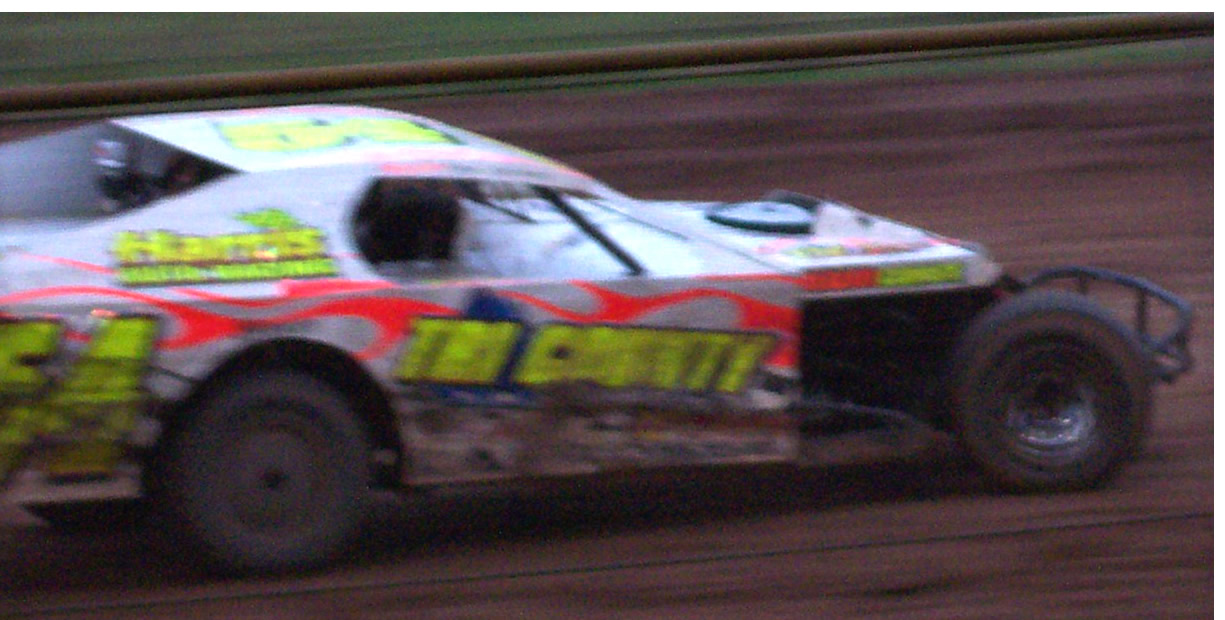 IMCA Modified racecar of 2006 IMCA Modified national (U.S.) champion Benji LaCrosse at Thunderhill Speedway at the Door County Fairgrounds in Sturgeon Bay, Wisconsin, USA. Cropped from original.